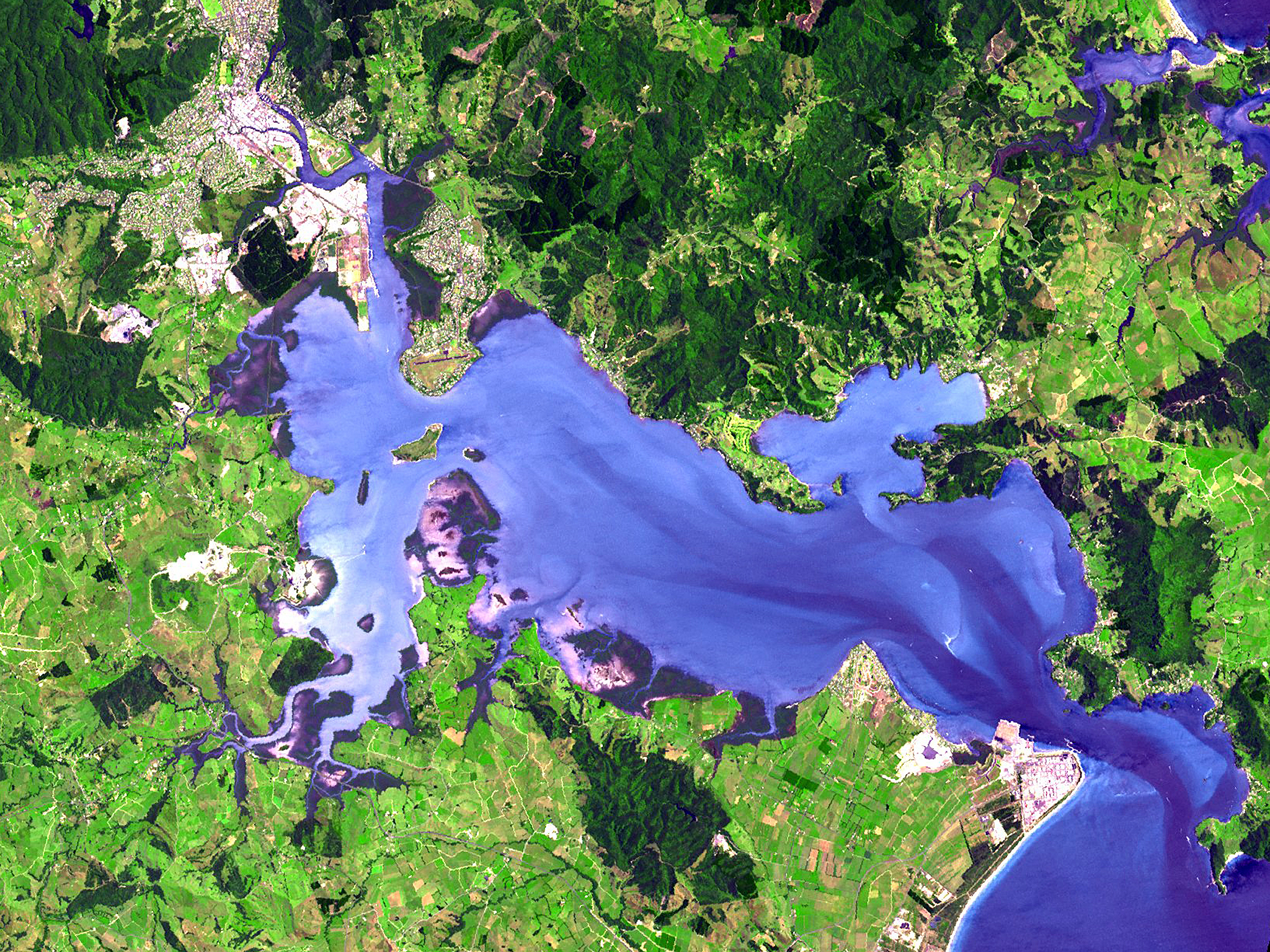 Whangarei Harbour, Northland, North Island, New Zealand (satellite image)